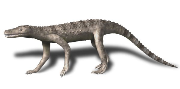 Dibothrosuchus elaphros, Lower Jurassic of China. Digital. Source: skeletal reconstruction by Wu and Chatterjee (1993)